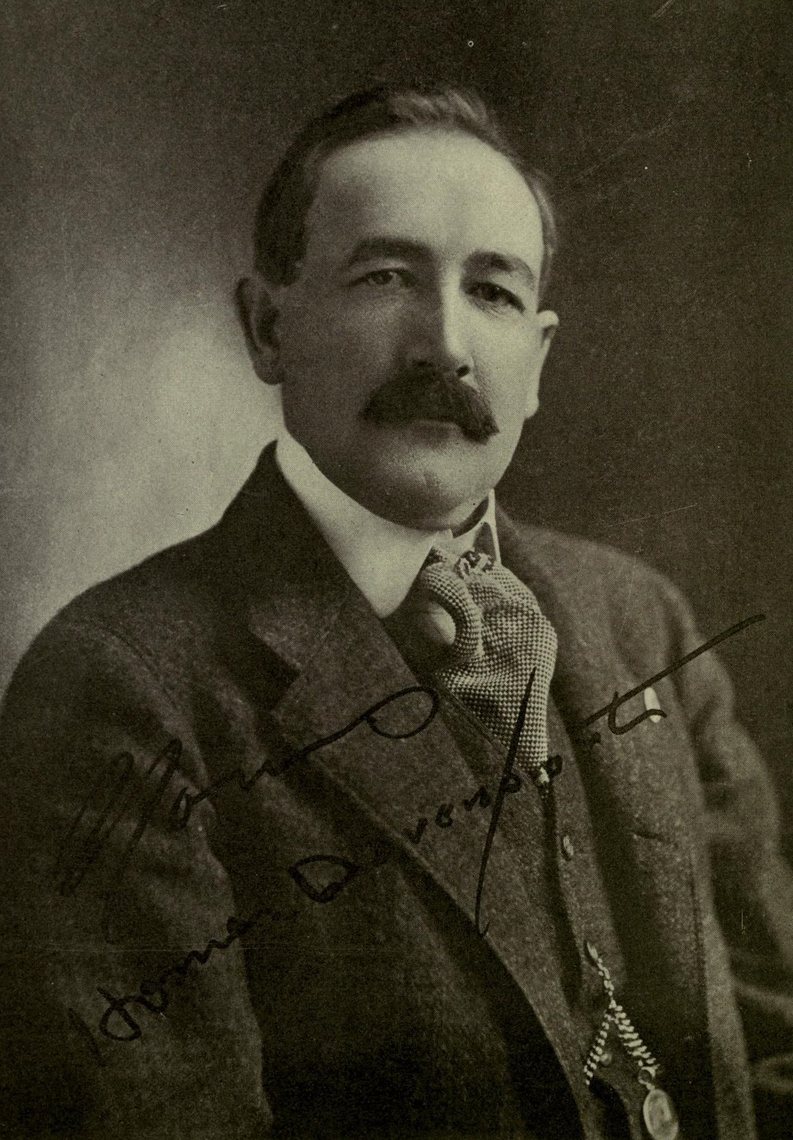 Homer Davenport